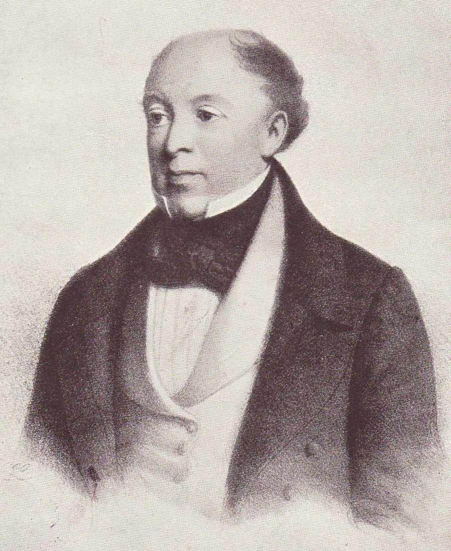 Portrait of medician professor Joseph Frank (1771—1842)